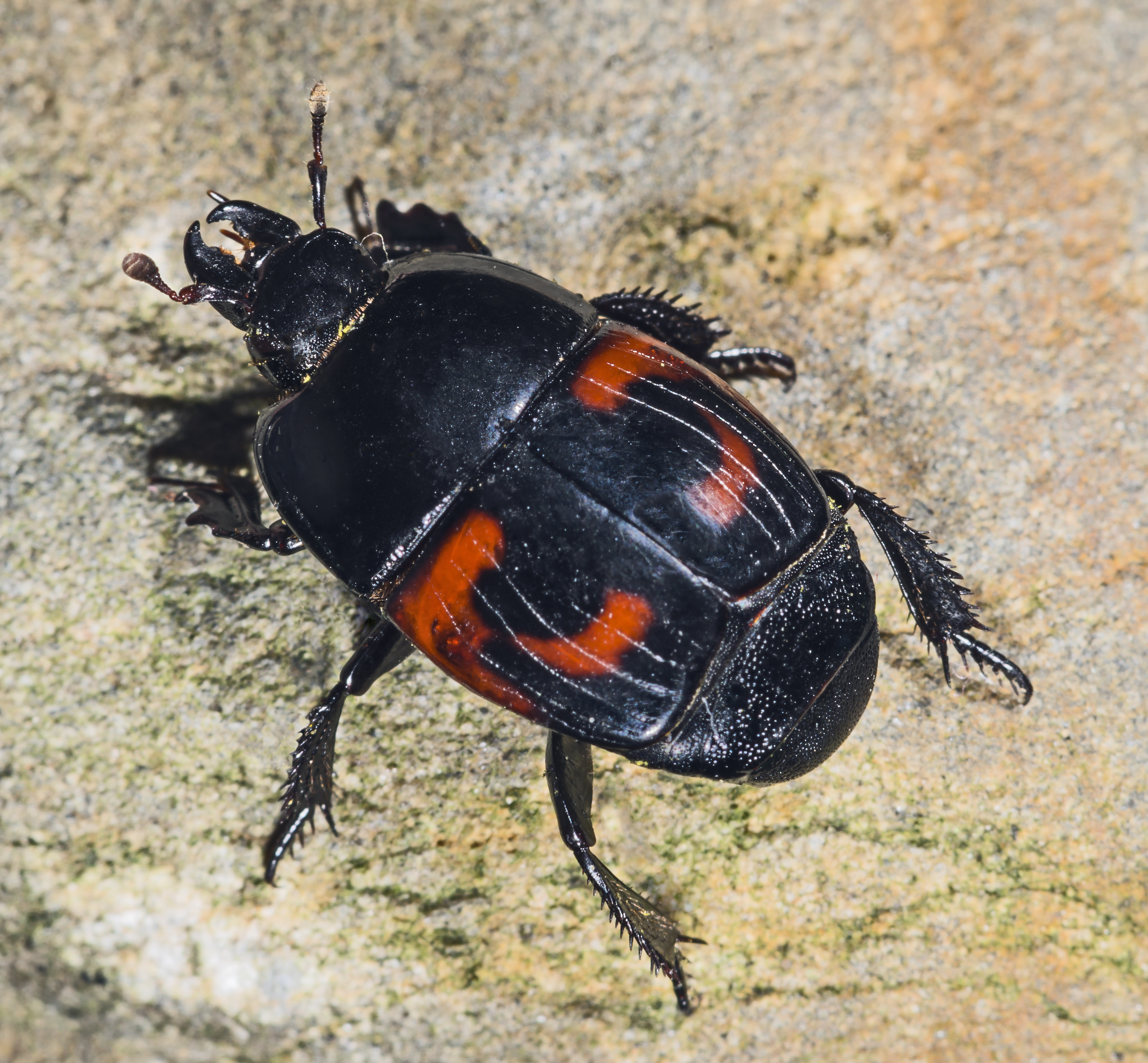 Hister quadrimaculatus. Dorsal side